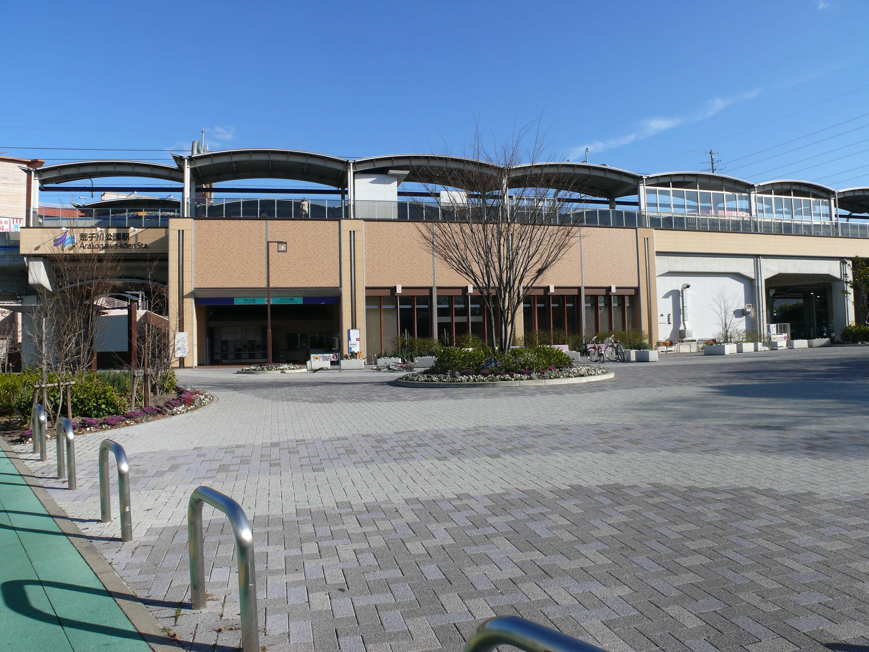 AONAMI Line Arakogawa-koen Station.